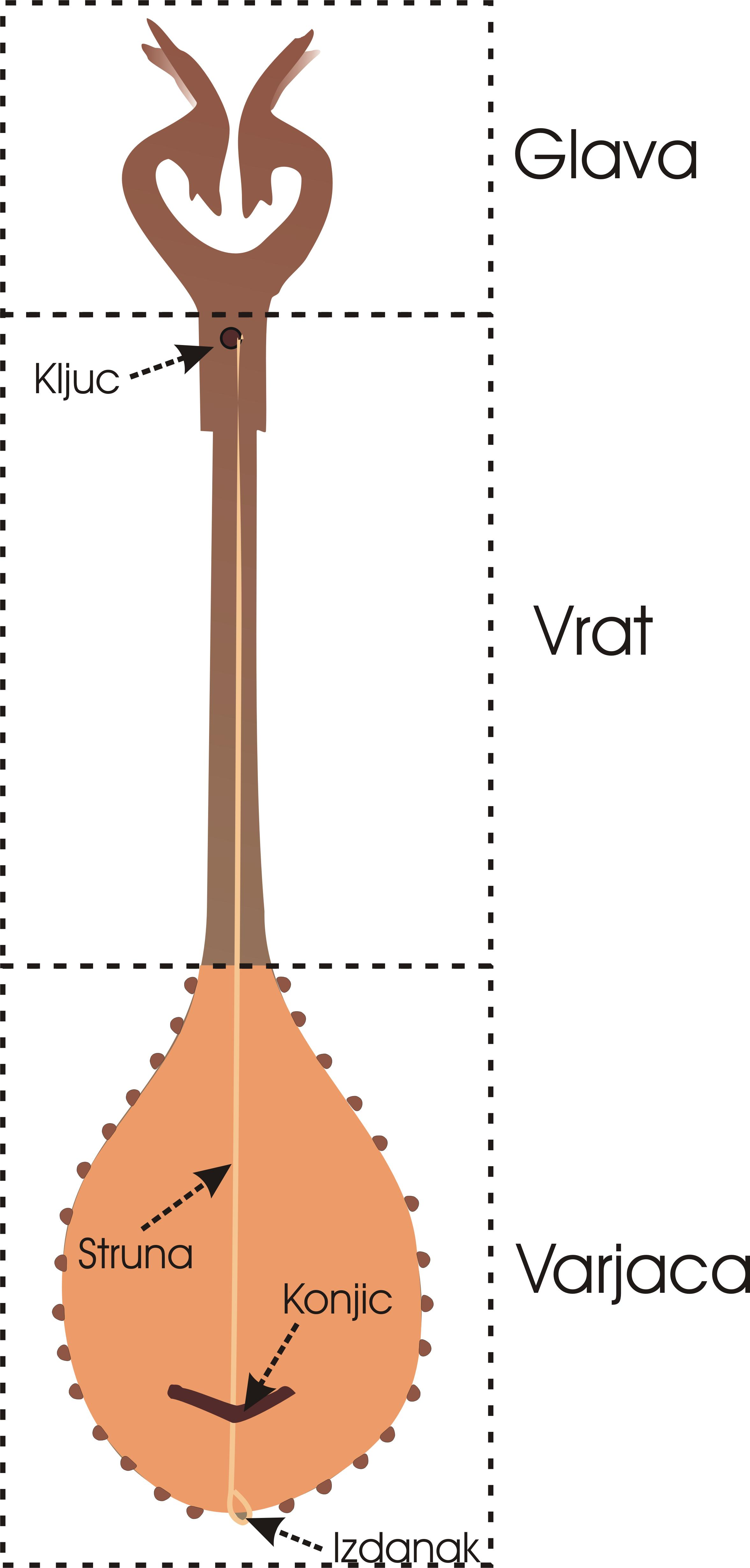 Gusle